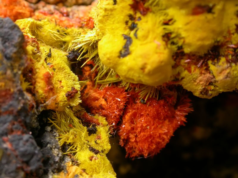 Schoepite (Epiianthinite, yellow), Curite (red), Uraninite (grey matrix) Locality: Shinkolobwe Mine (Kasolo Mine), Shinkolobwe, Central area, Katanga Copper Crescent, Katanga (Shaba), Democratic Republic of Congo (Zaïre) (Locality at ) Size: 14.0 x 10.0 x 7.2 cm. A very large and colourful specimen from the Shinkolobwe mine. The yellow mineral used to be called Ianthinite but since the discovery in the 1950’s has turned into Epiianthinite; which is, in fact, now realized to be the same species as previously known Schoepite. It is a sort of pseudomorph because the crystal habit of the Ianthinite can still be seen (the change occurred after the specimen was recovered, post-mining). Associated is also a 10 mm large cluster of red Curite crystals nicely nestled in the yellow Epiianthinite. It is beautiful. A very heavy specimen due to the matrix consisting of pure Uraninite. Shinkolobwe is the type locality for the Schoepite and the Curite, a mine closed since decades. It used to be on display at the Carnegie Museum, just because of the gorgeous colour mix. This specimen was removed from the display in the early 1990's because it was considered "too hot" and sold to now-deceased dealer Gilbert Gauthier. Before it went to Carnegie, it came from the famous dealer Dr. F. Krantz, in Bonn. Type Locality for both species.